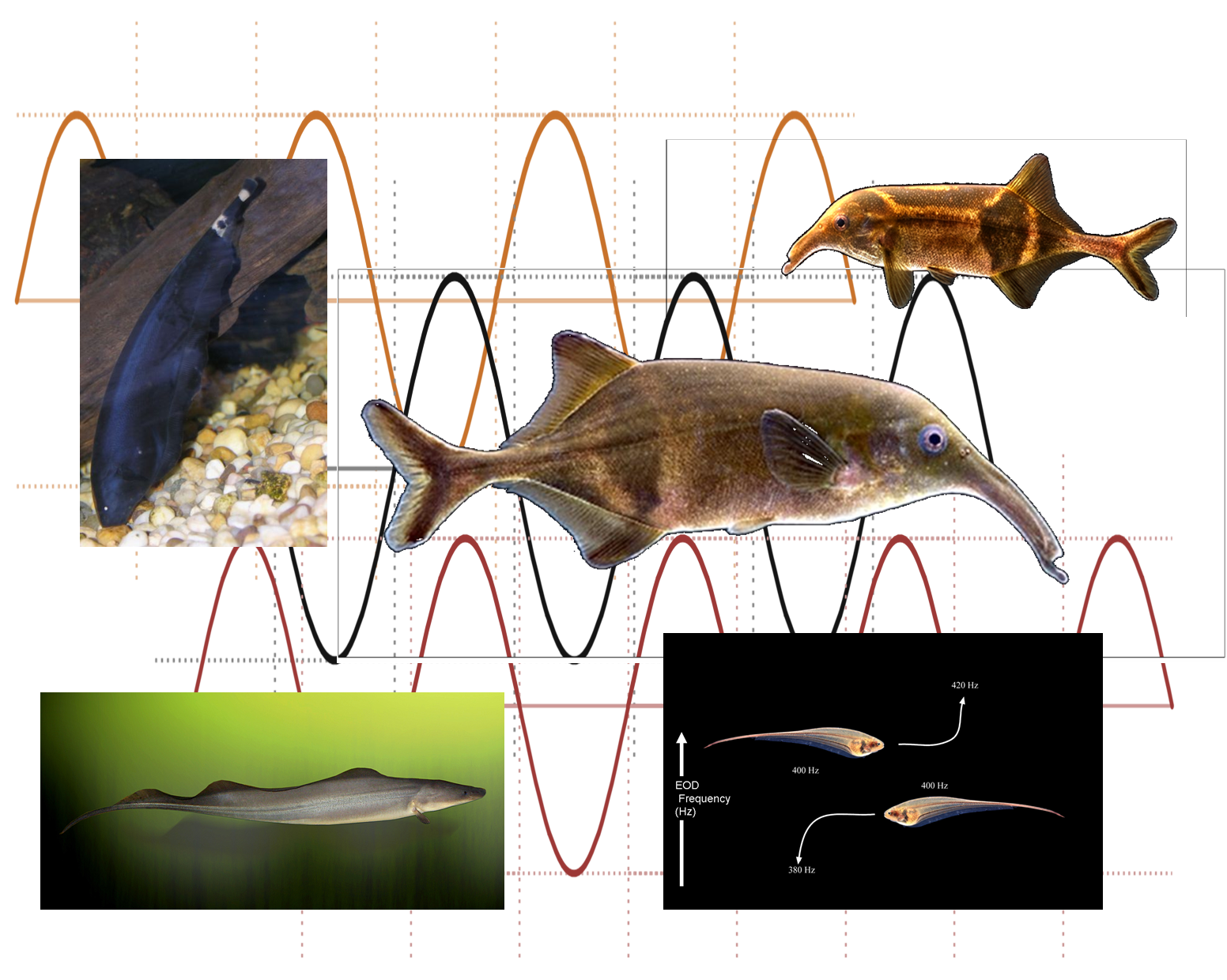 Representation figure of electrocommunication between electric fishes